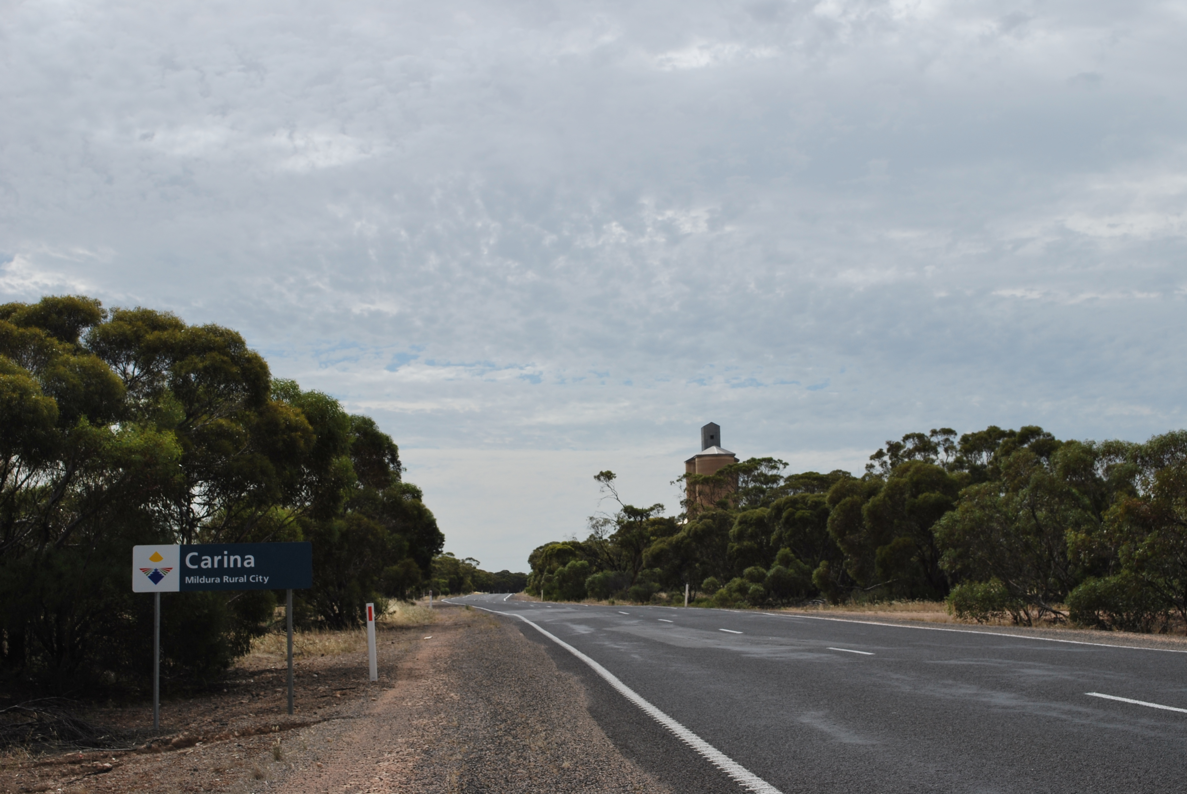 Town entry sign at Carina, Victoria